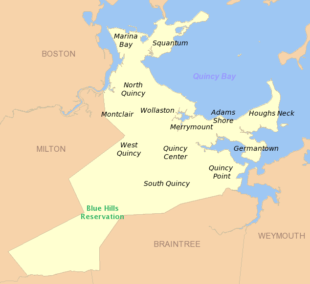 Map showing the locations of neighborhoods in Quincy, Massachusetts